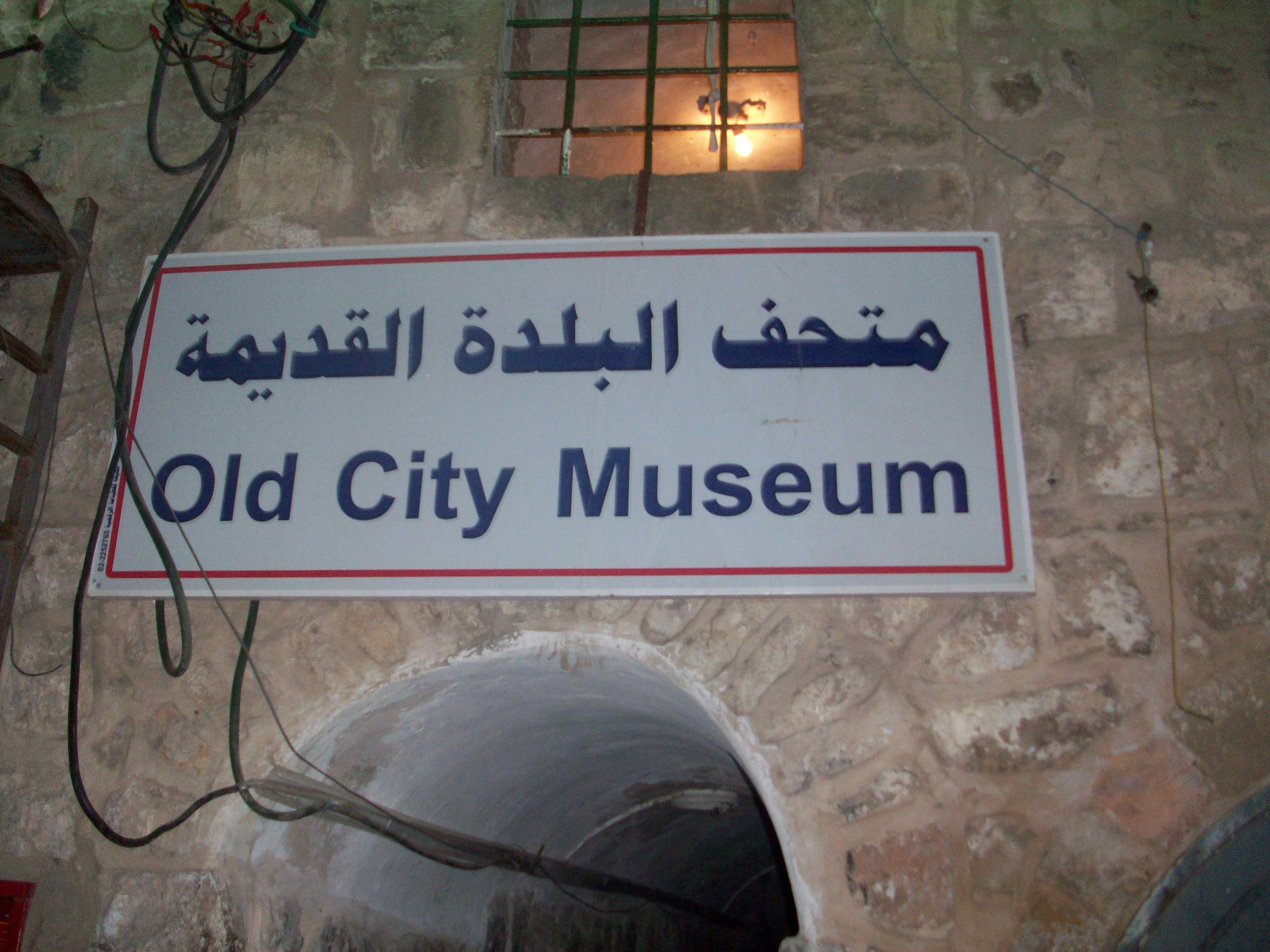 متحف البلدة القديمة - مدينة الخليل